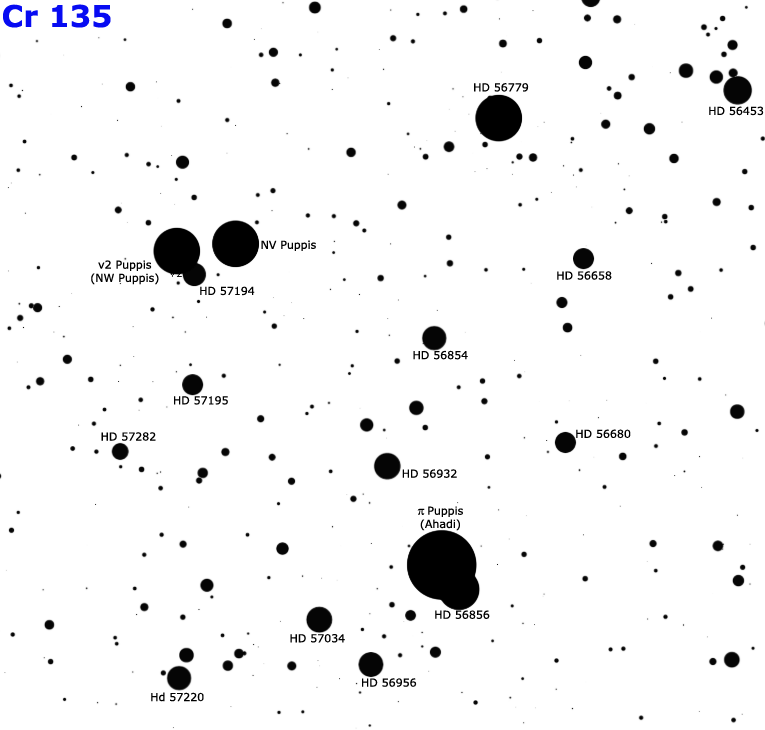 Detailed map of Cr 135